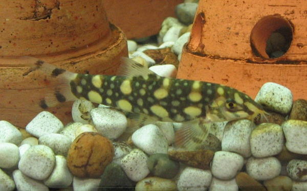 A Burmese Border Loach Botia kubotai, size about 2 inches. It has more grey dots than average Botia kubotai at this size.